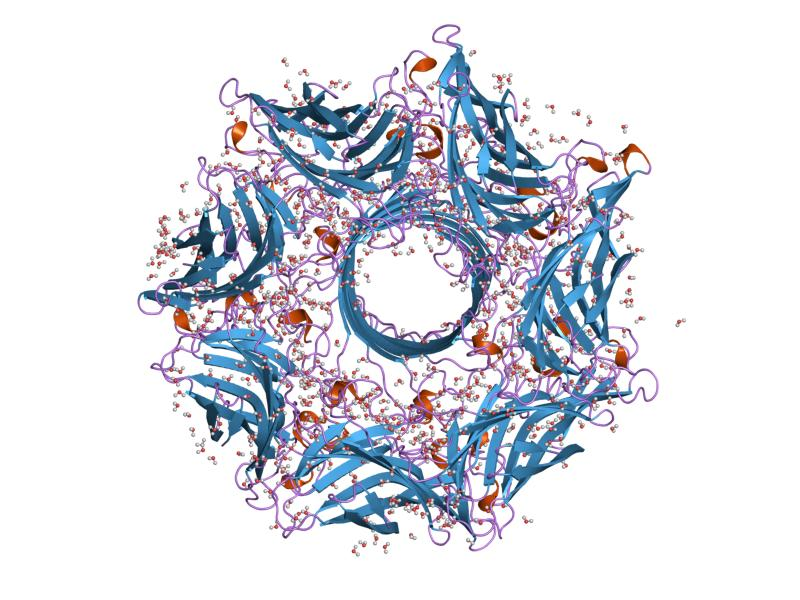 Cartoon representation of the molecular structure of protein registered with 7ahl code.